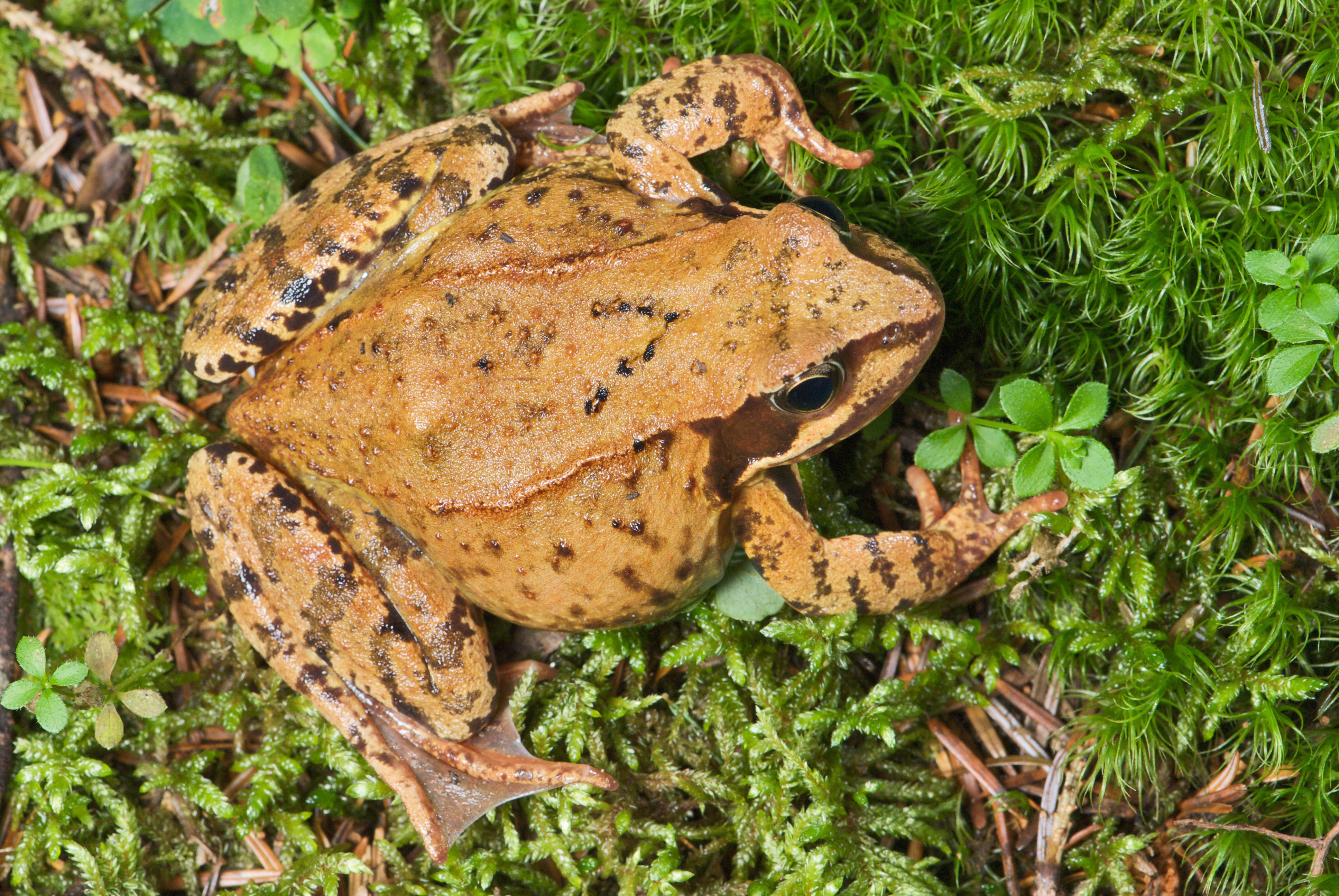 The Common Frog (Rana temporaria) can be found throughout much of Europe. The specimen in the picture is a fully-grown female with a length of about 90 mm – measured from head to abdomen.